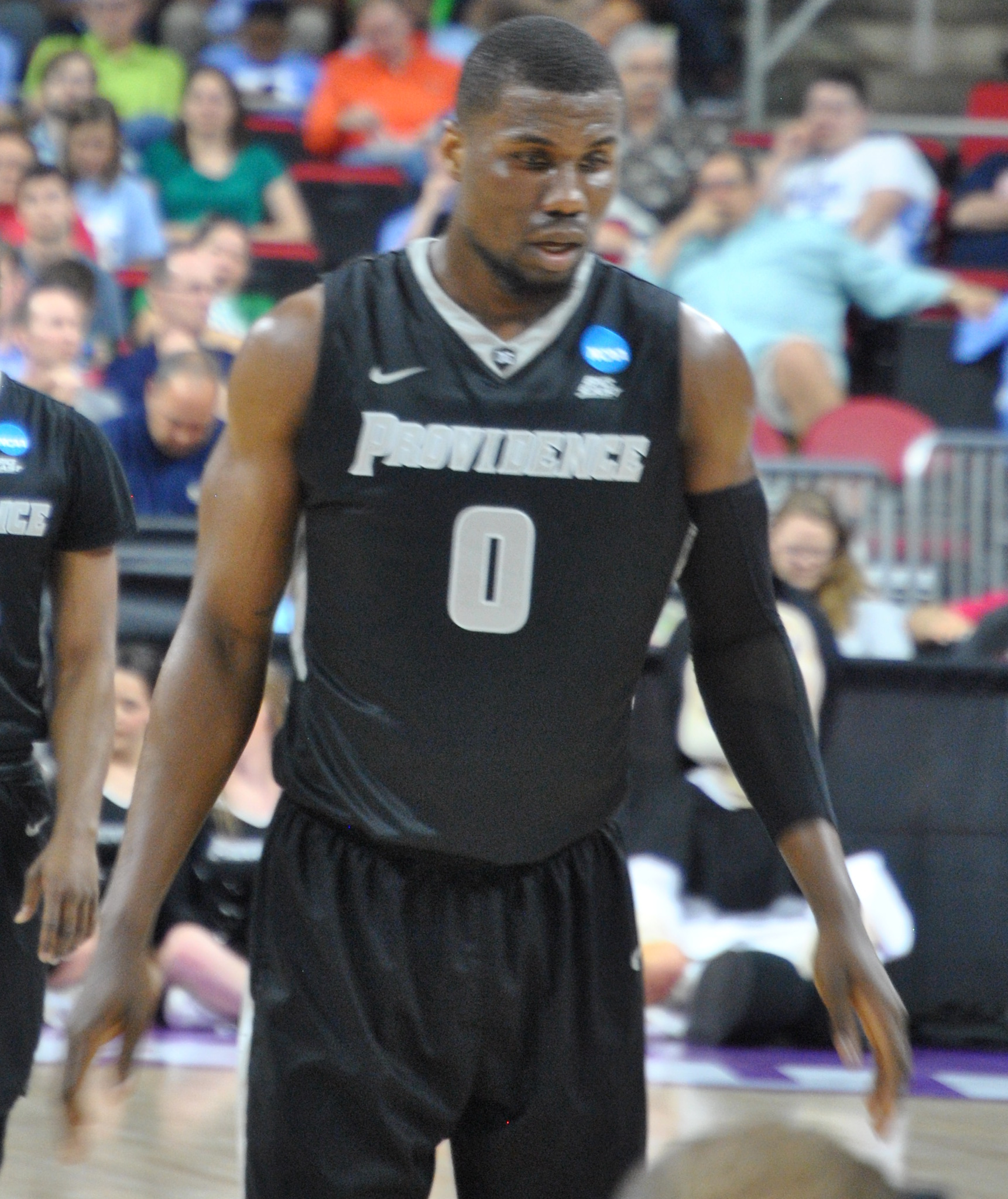 Ben Bentil at the Free Throw line for the Providence Friars at the NCAA Tournament in Raleigh.